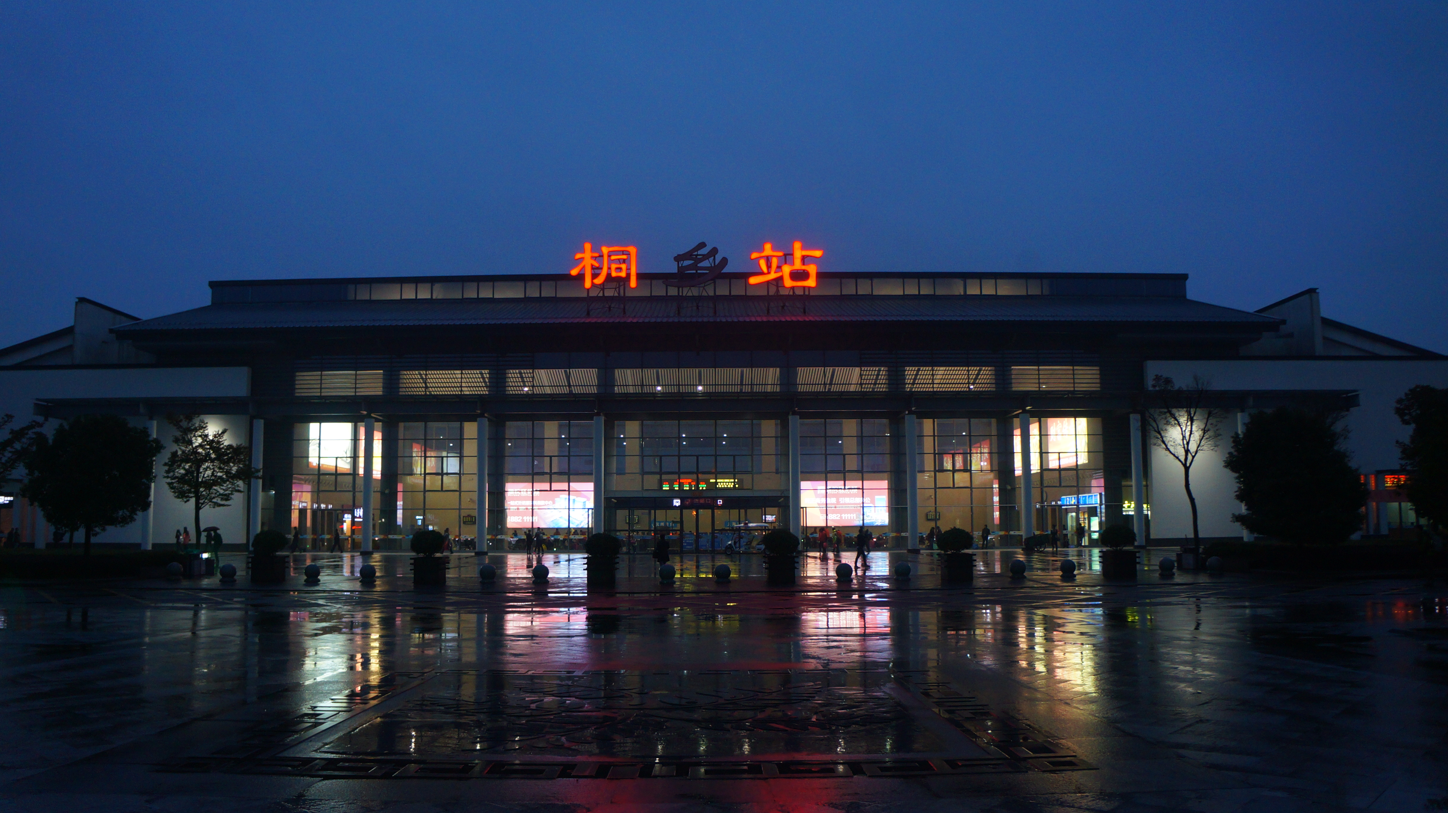 Facade of Tongxiang Railway Station